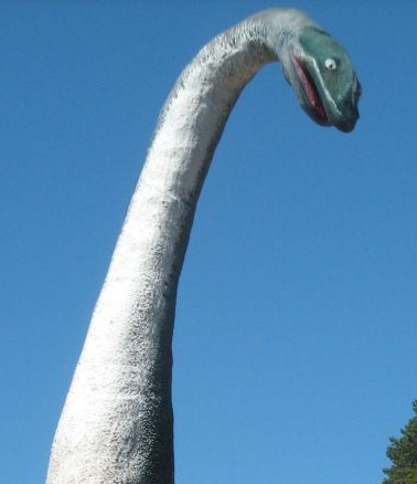 Statue of monster of Loch Ness, Nessie, in front of Nessieland in Drumnadrochit, Scotland